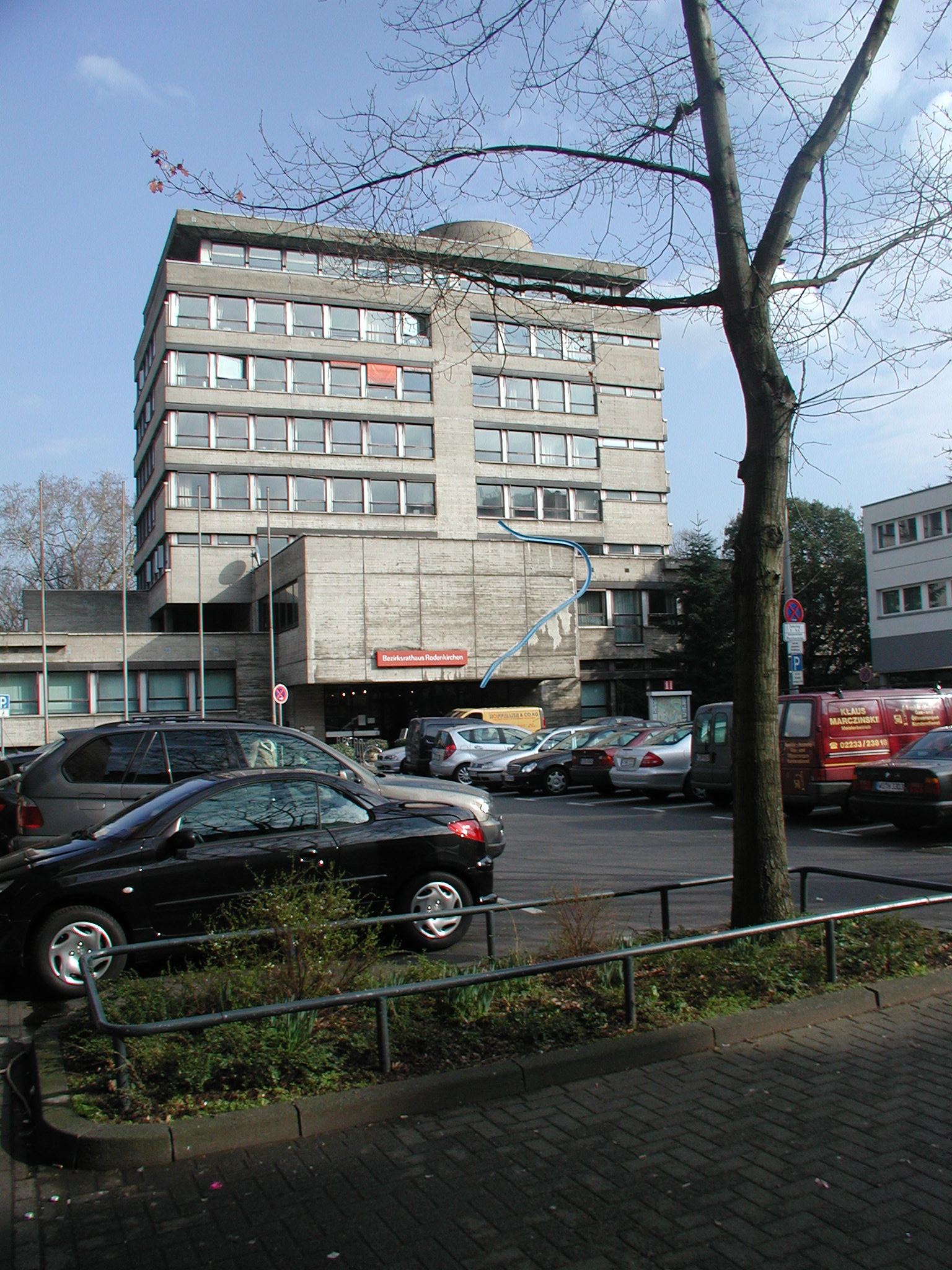 Town hall Rodenkirchen (Cologne)